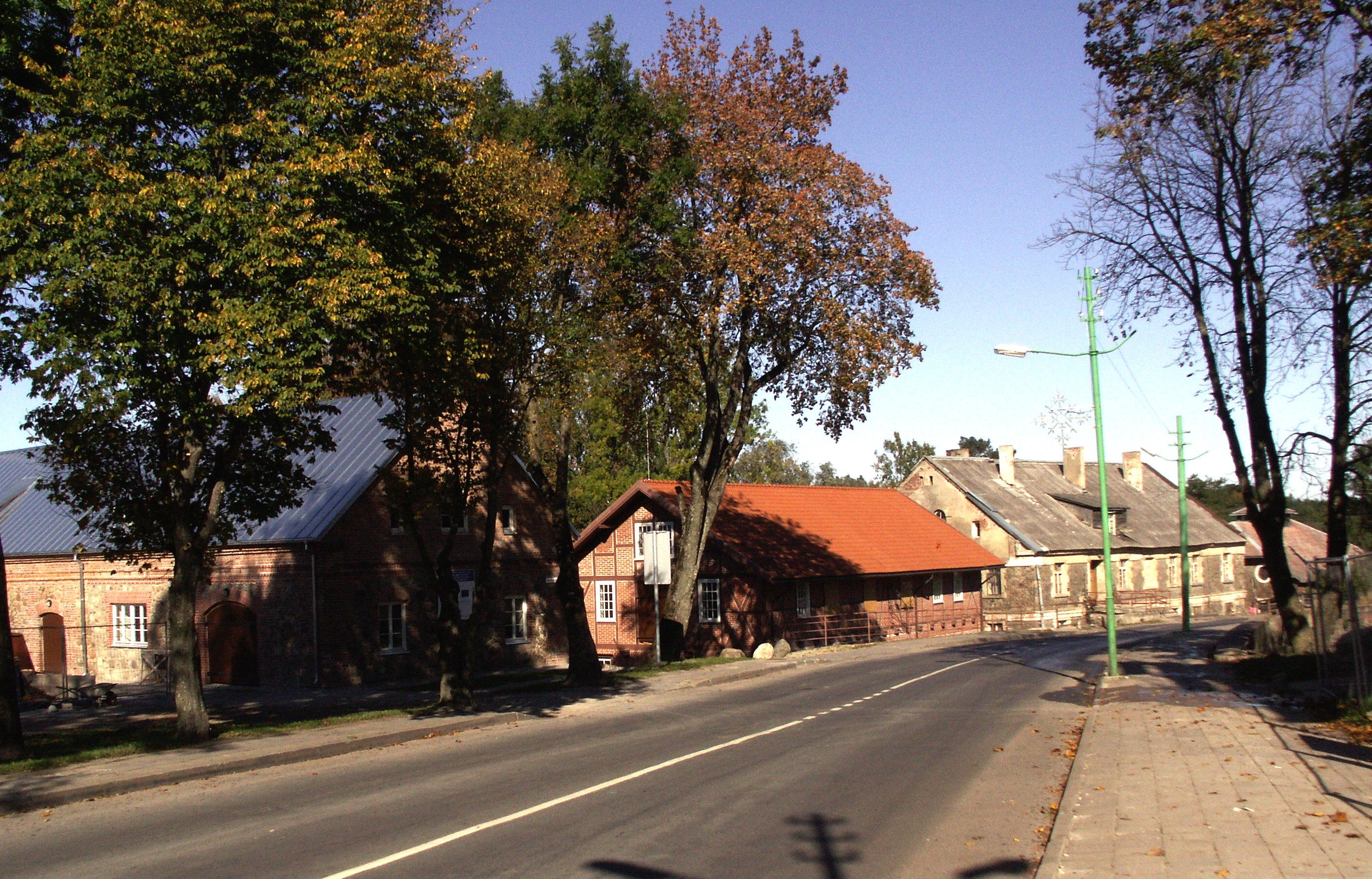 Kretinga manor, Lithuania